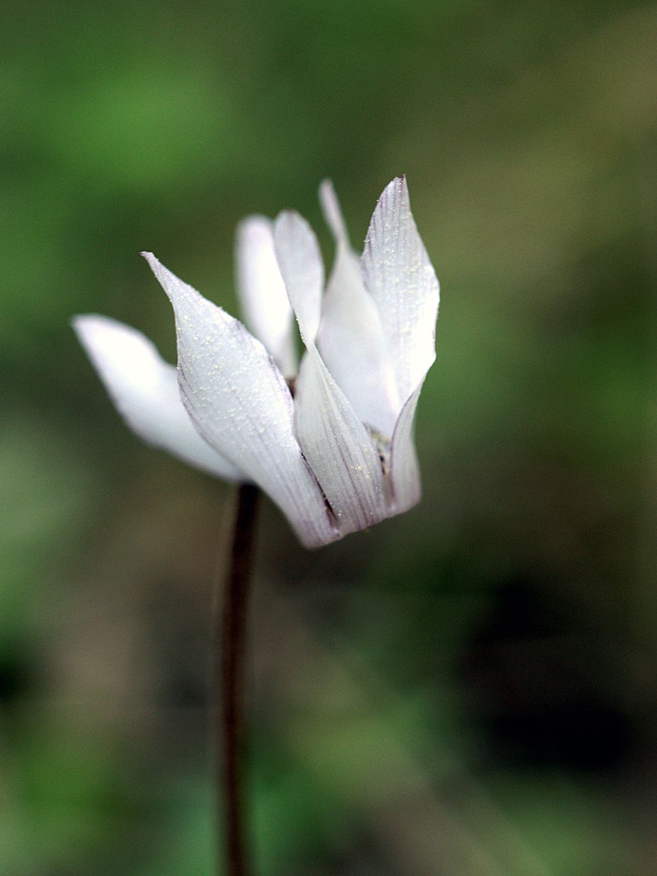 Cyclamen balearicum - single flower